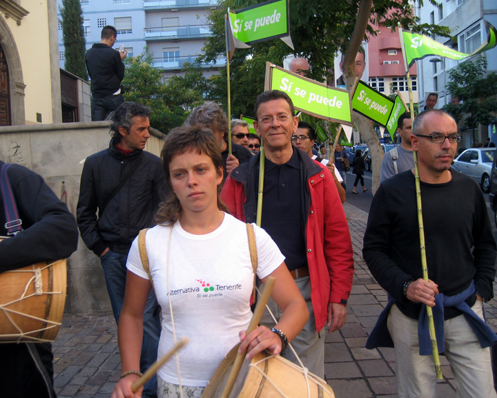 Demonstrators from Alternativa Tenerife, in Tenerife, Canary Islands, Spain, bearing Sí se puede slogans.